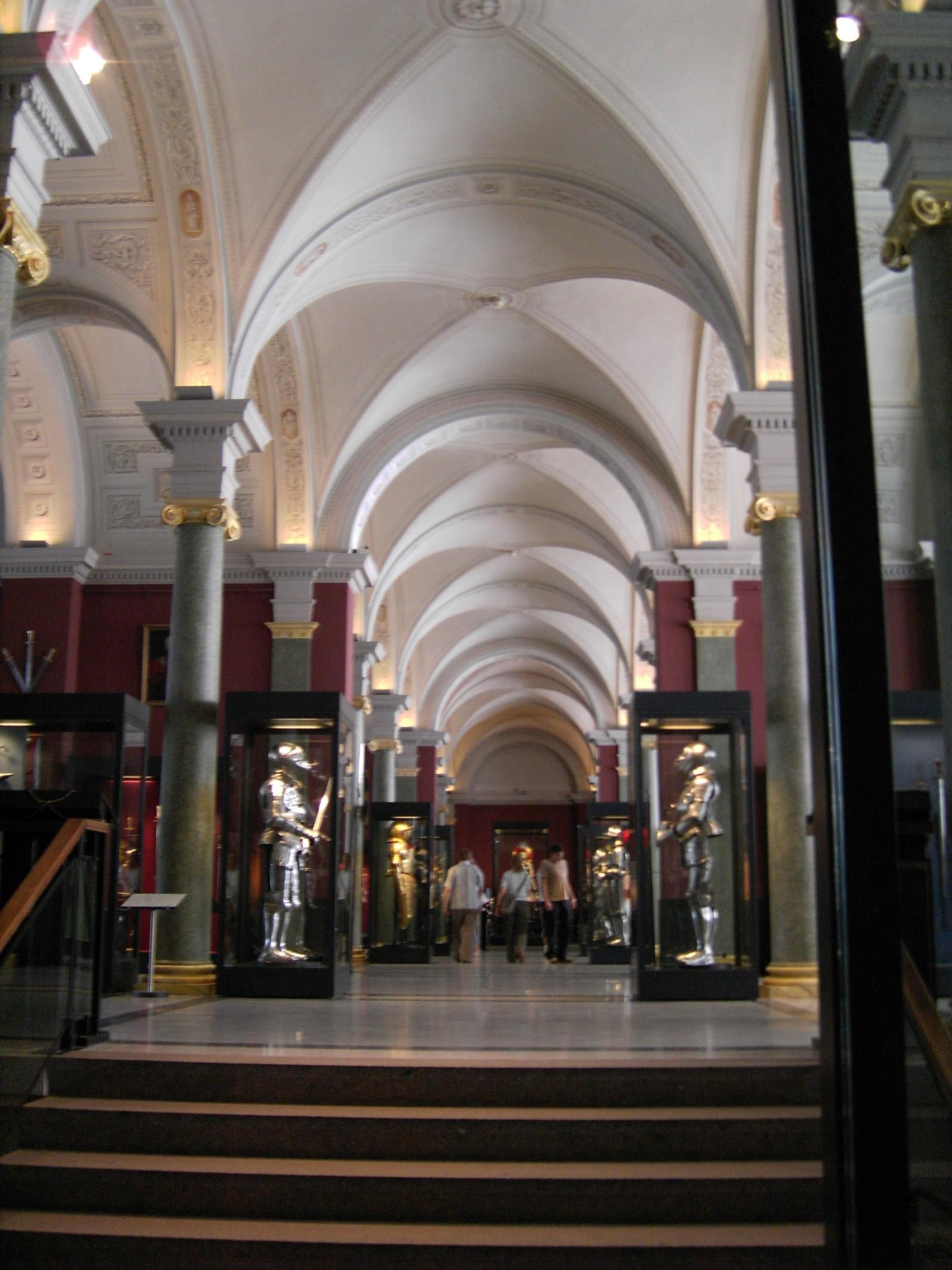 Dresdner Zwinger, 16th or 17th century armour and weapons, Entrance